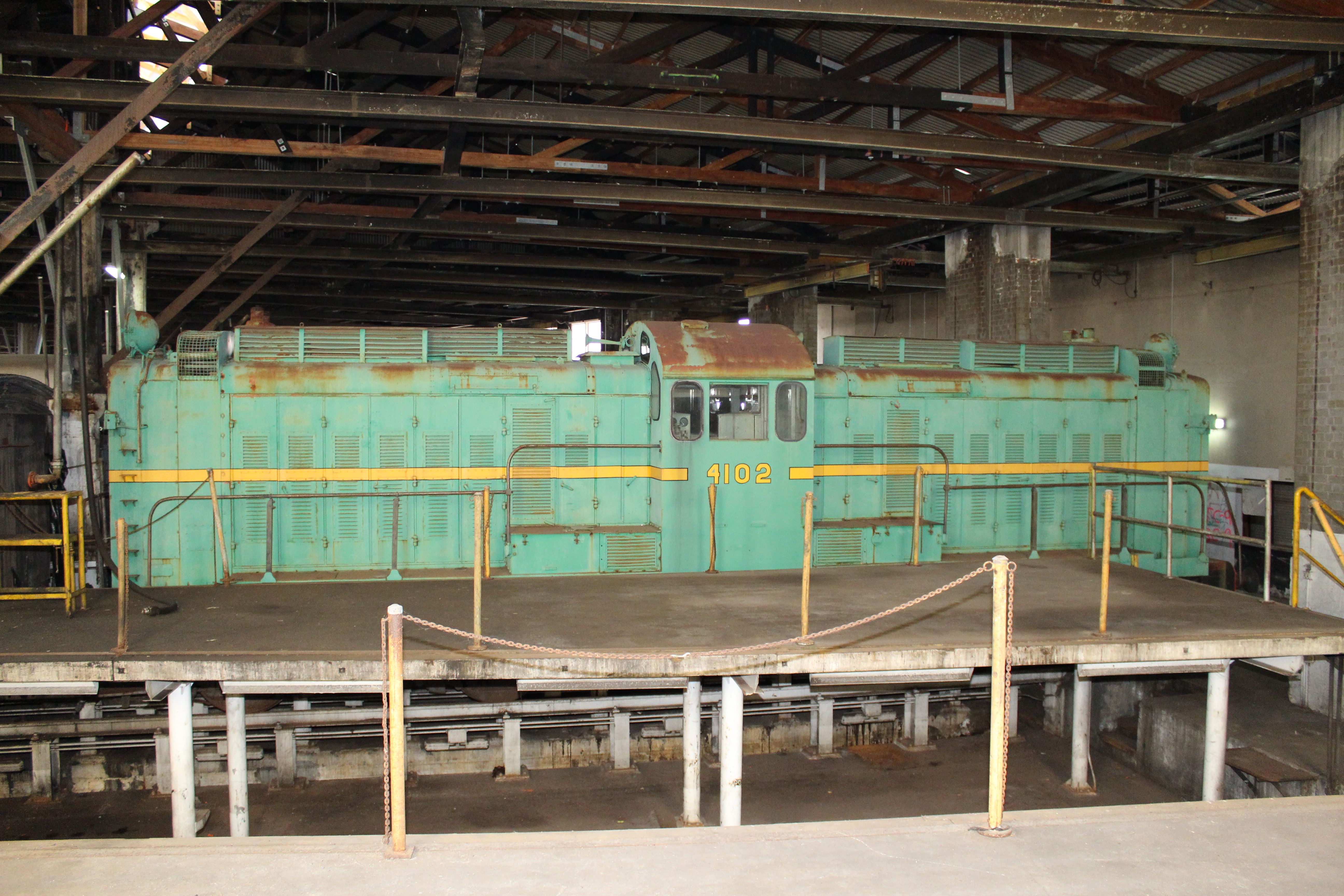 Preserved diesel electric loco 4102 stored on No.20 road of No.2 shed Broadmeadow Loco Depot